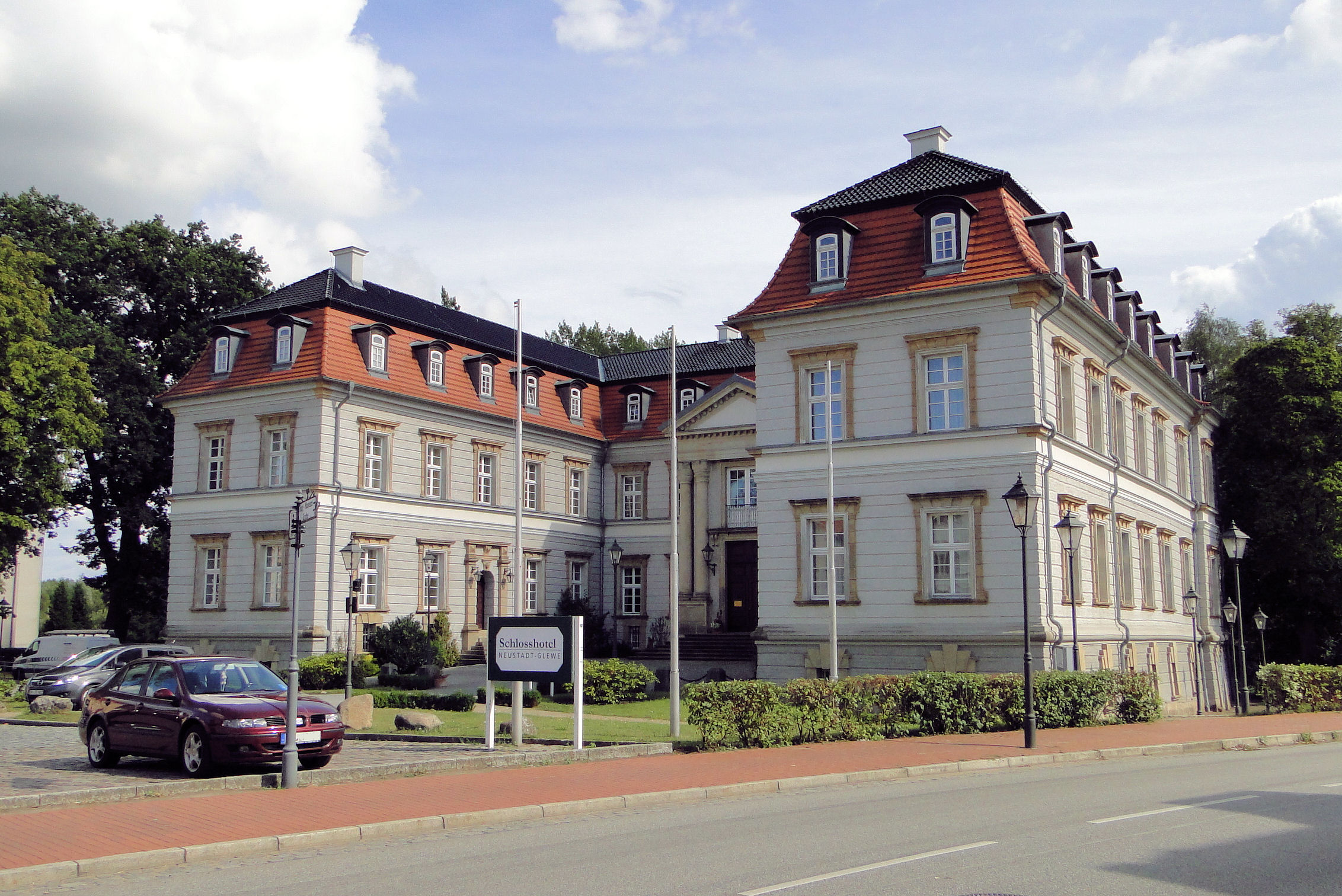 Castle in Neustadt-Glewe, district Ludwigslust-Parchim, Mecklenburg-Vorpommern, Germany